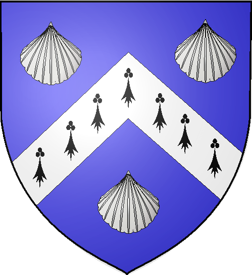 Marquis of Townshend CoA